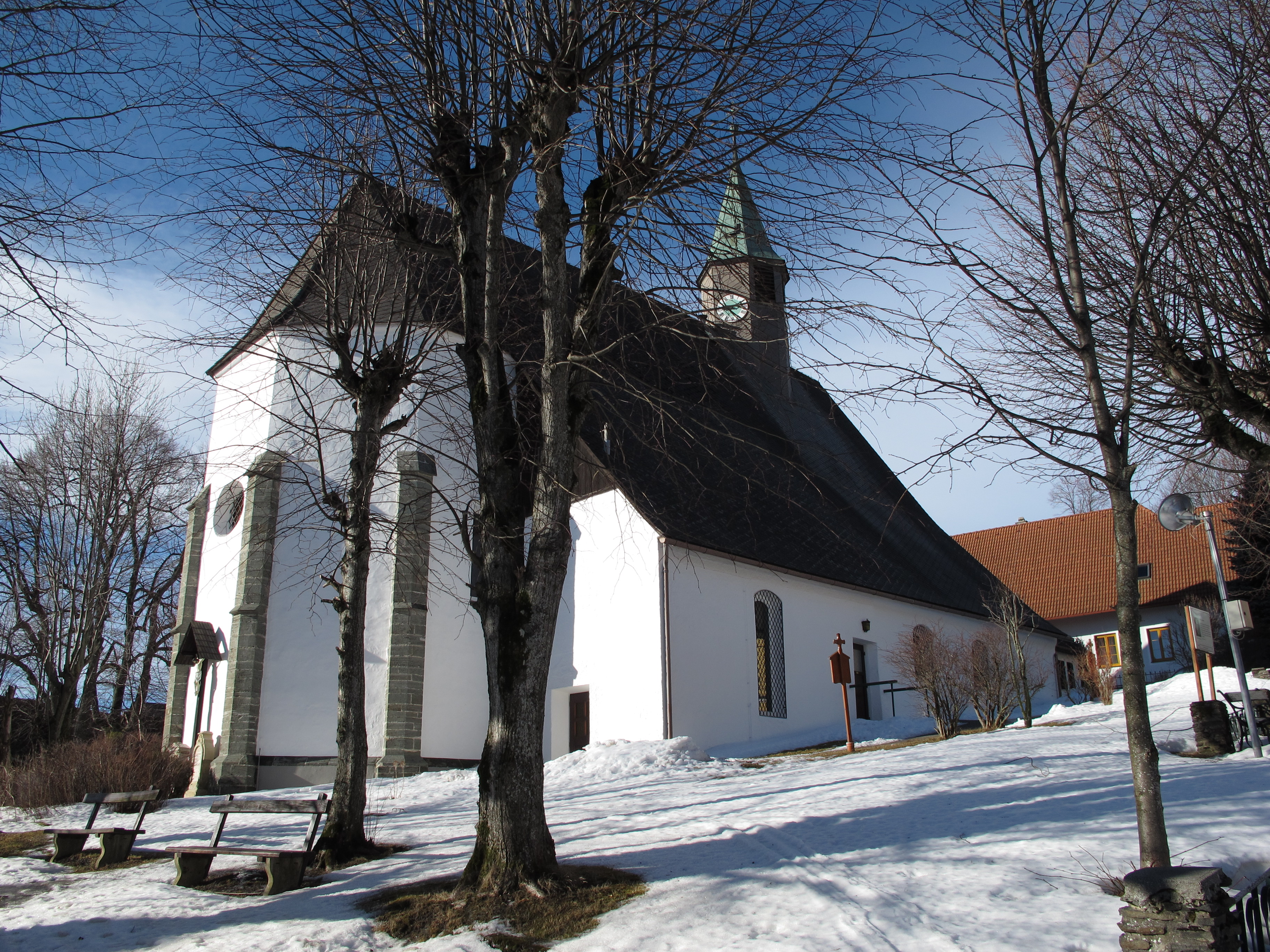 Pfarrkirche Mönichkirchen